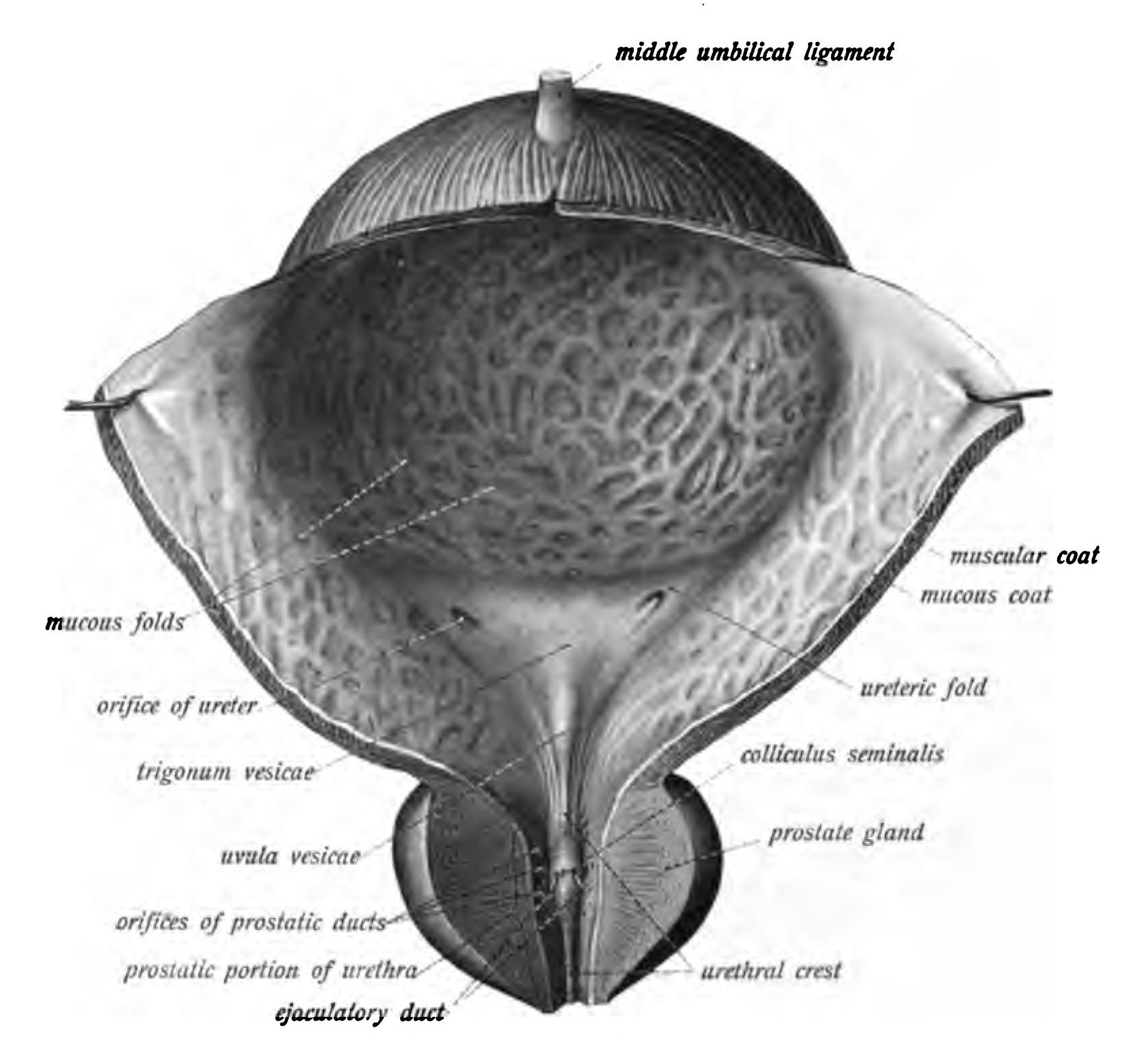 An anatomical illustration from the 1906 edition of Sobotta's Atlas and Text-book of Human Anatomy with English Terminology